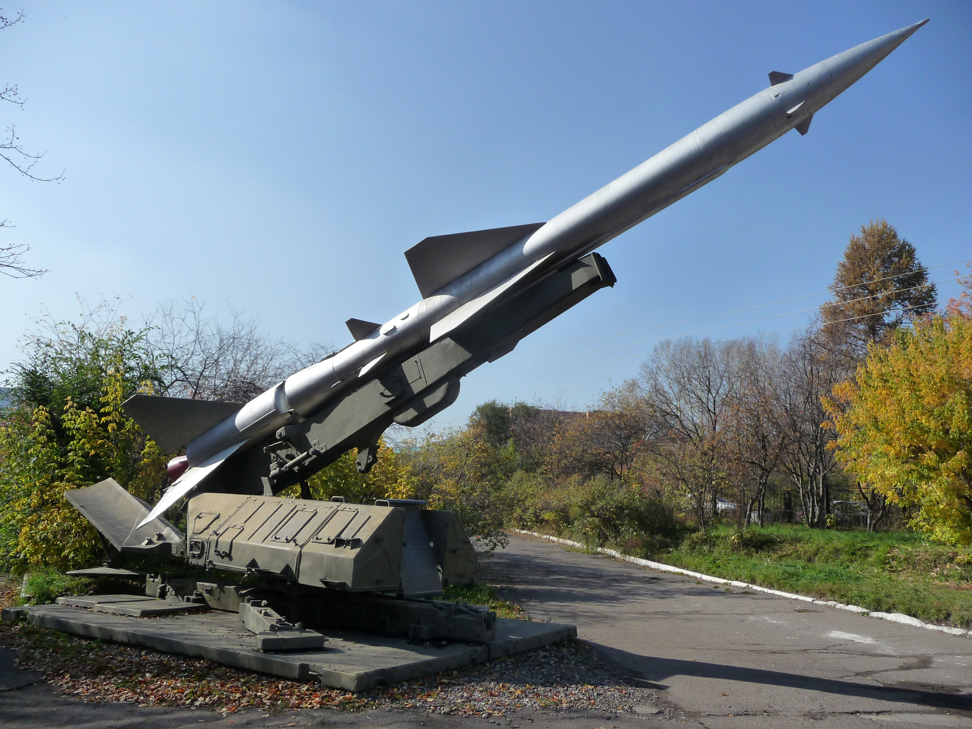 Russian surface-to-air missile system S-75 Dvina, located in front of the building of Siberian Federal University in Krasnoyarsk